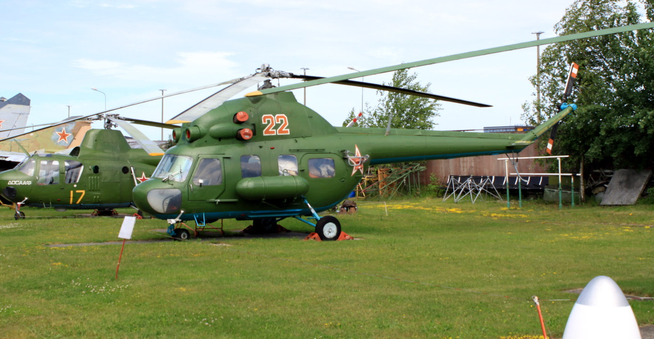 Mi-2, Riga